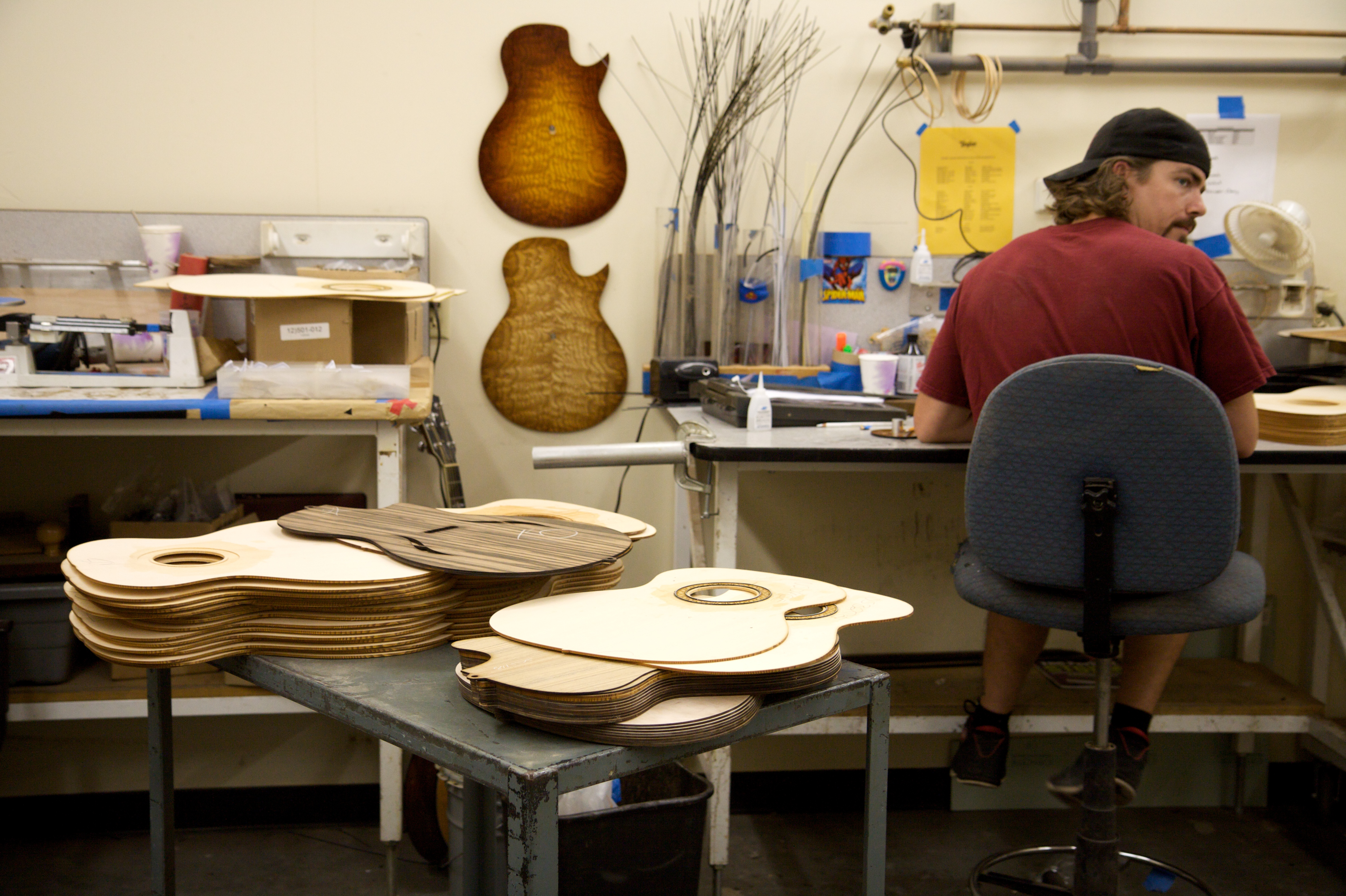 TGFT18 body top & backs - Taylor Guitar Factory